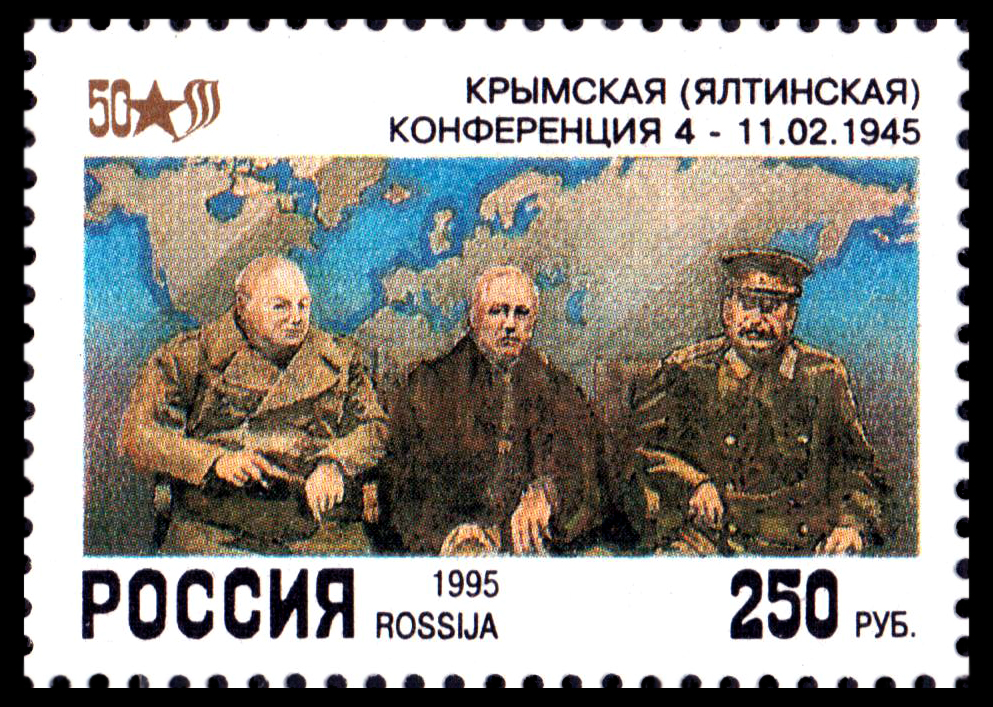 Stamp of Russia. 50th anniversary of the Victory in the Great Patriotic War. The Yalta conference, 1995, 250 r., CPA #208.